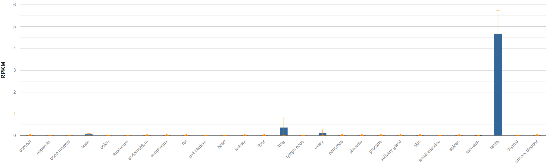 Expression data for C1orf141 from HPA RNA-Seq normal tissues project. performed on tissue samples from 95 human individuals representing 27 different tissues in order to determine the tissue-specificity of all protein-coding genes.